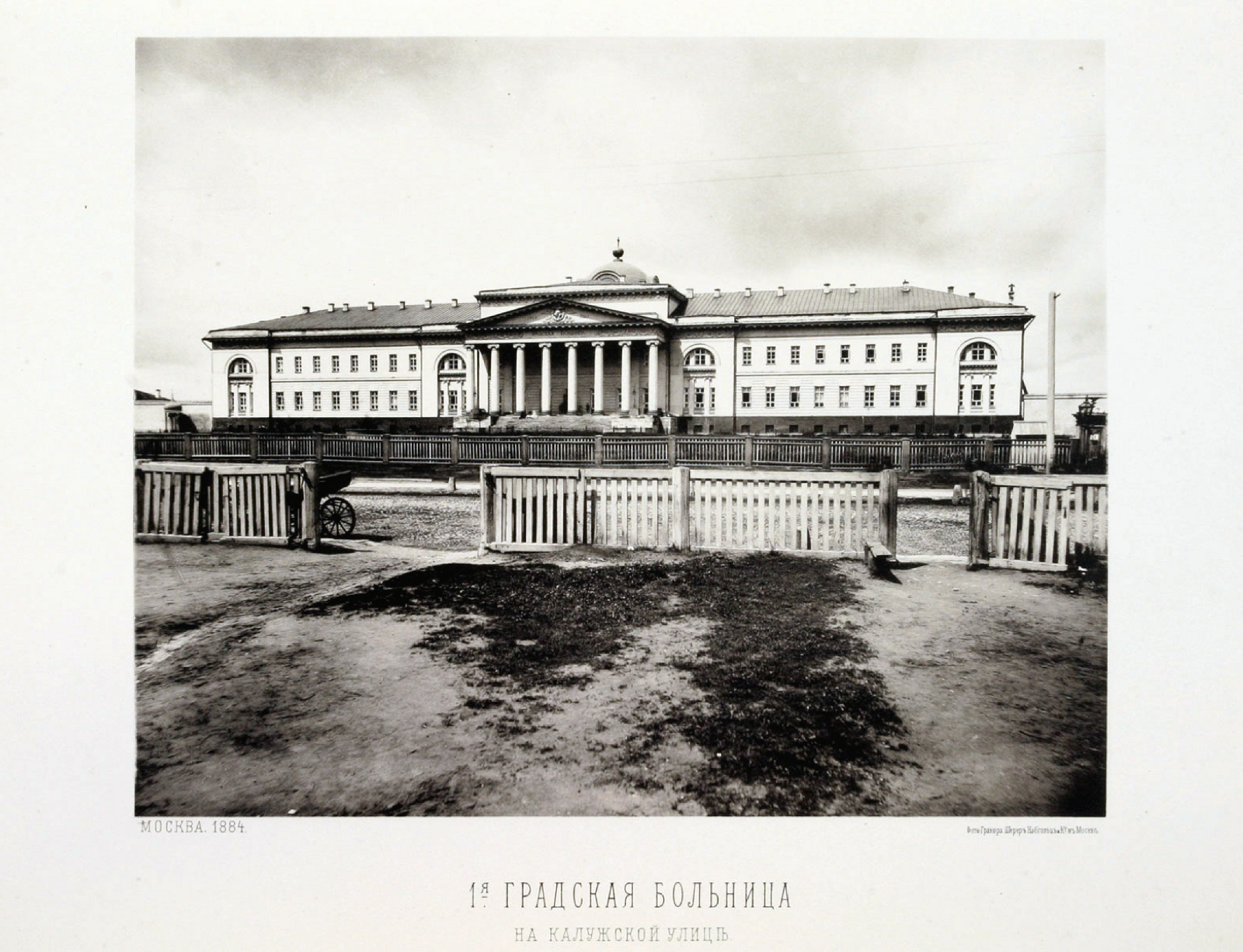 Plate 96. First City hospital in Moscow.